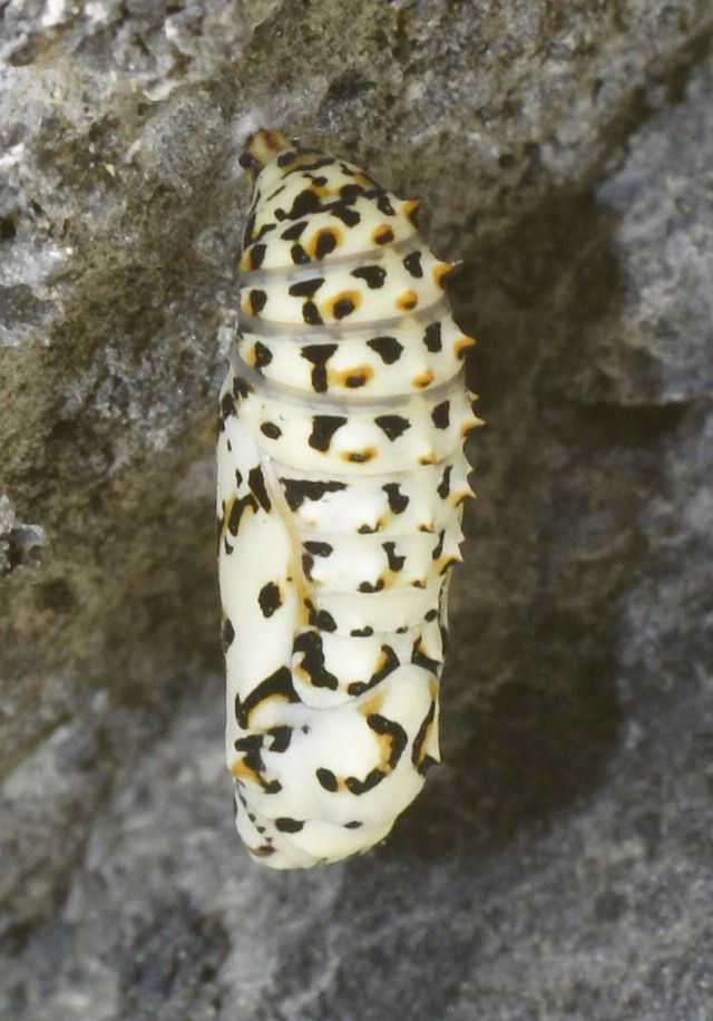 Melitaea didyma, pupa, between Leuk and Getwing (VS, Switzerland)